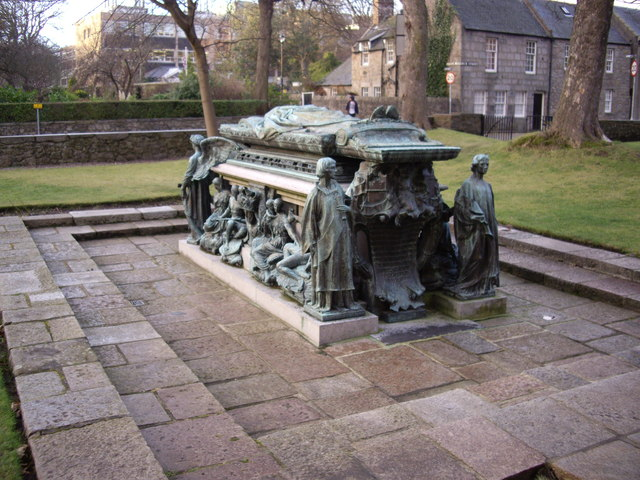 Bishop Elphinstone's tomb Outside Kings College Chapel, Old Aberdeen.